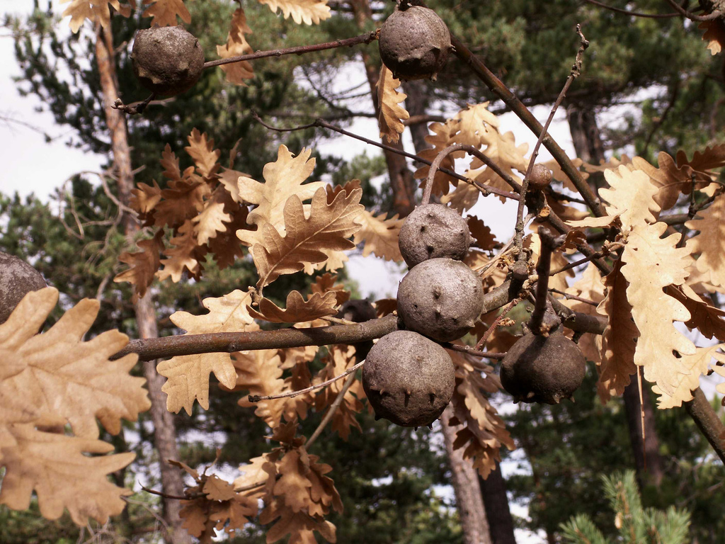 agallas_roble